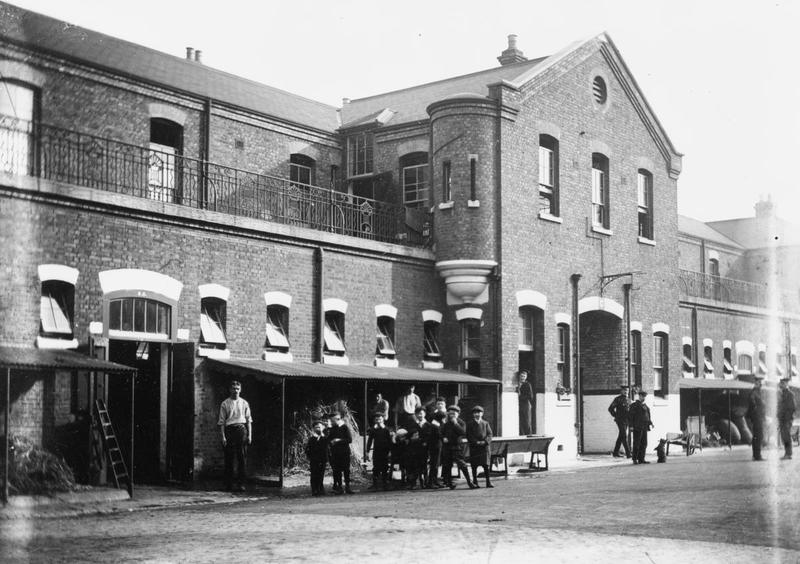 The British Army Prior To the First World War 2nd Life Guards. Regents Park Barracks, Albany Street.